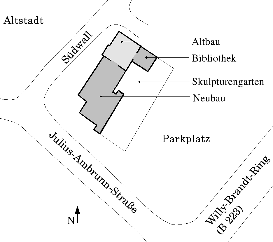 position plan of the Jewish Museum Westphalia, Dorsten, Germany